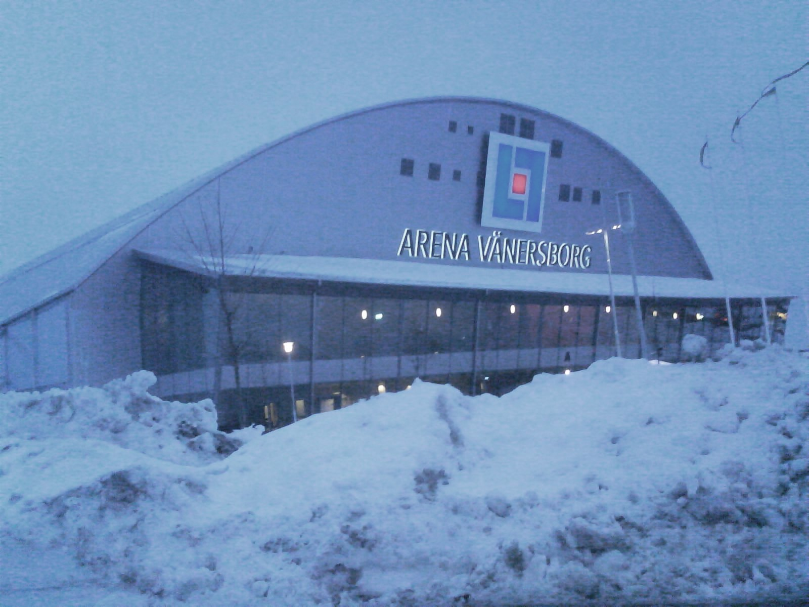 Arena Vänersborg Main Entrance. As seen a snow filled day in march 2010.